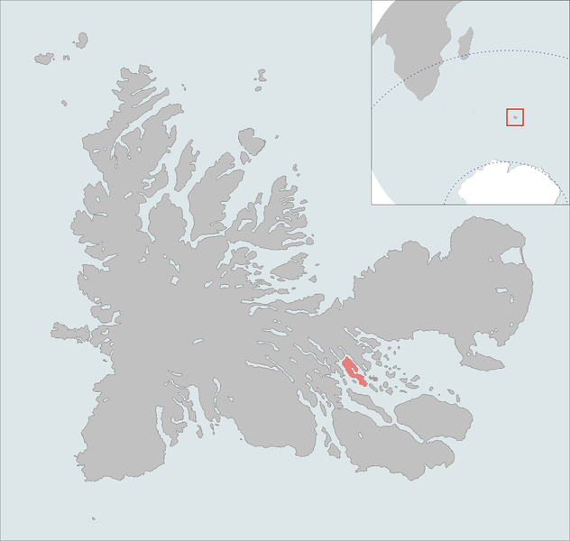 Position of Île Australia, in the Kerguelen Islands. Drawn by Varp and coloured by lal.sacienne.